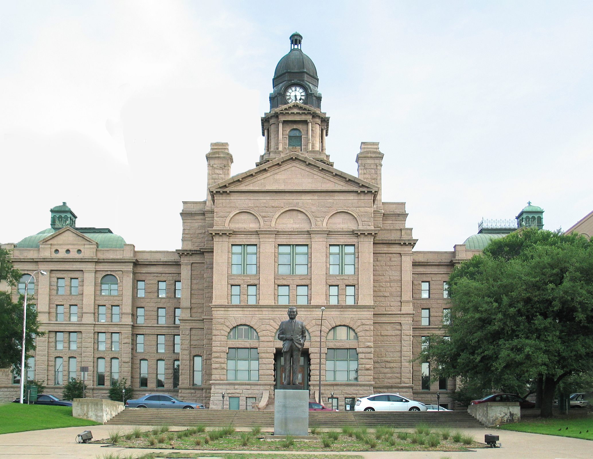 This is a photograph of the Tarrant County Courthouse as viewed from the Northwest side. A statue of Charles Tandy is in the foreground. Two skyscrapers are in the background.